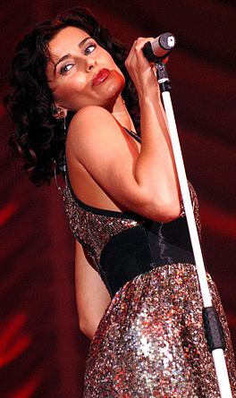 Nelly Furtado at Manchester Arena (February 16, 2007)